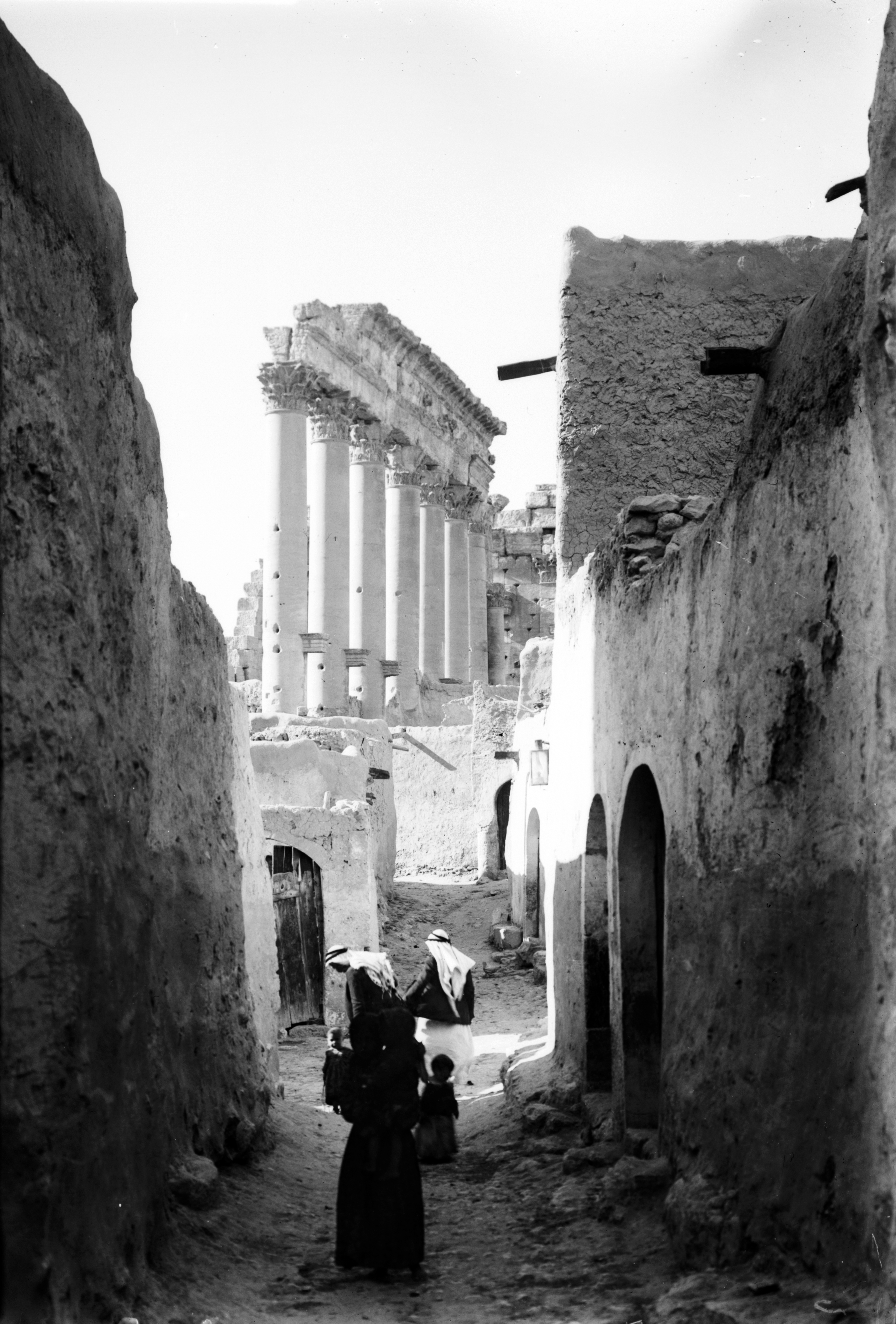 Palmyra (Tadmor). Street of village in Temple of the Sun.